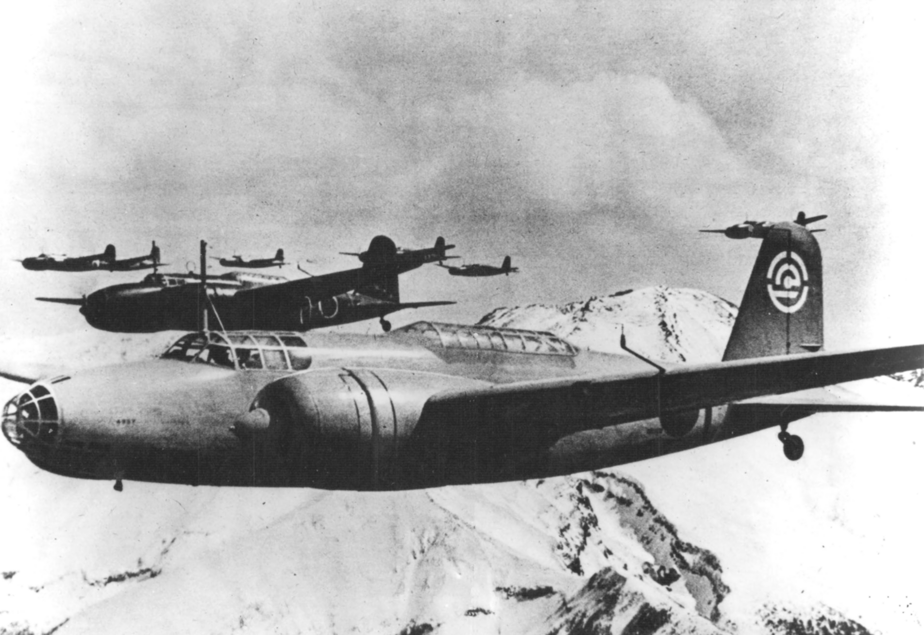 Imperial Japanese Air Force Mitsubishi Ki-21-II bombers (Allied code name "Sally") pictured in flight over a mountain range.